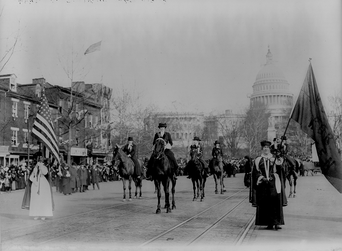 Head of suffrage parade, Washington, D.C.